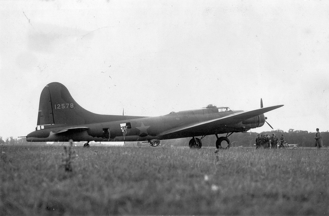 A B-17E Flying Fortress (serial number 41-2578) nicknamed "Butcher Shop" of the 97th Bomb Group. Handwritten caption on reverse: '17-8-42 D.' Printed caption removed from reverse. On reverse: Photopress, US Army Press Censor ETO and US Army General Section Press & Censorship Bureau [Stamps].